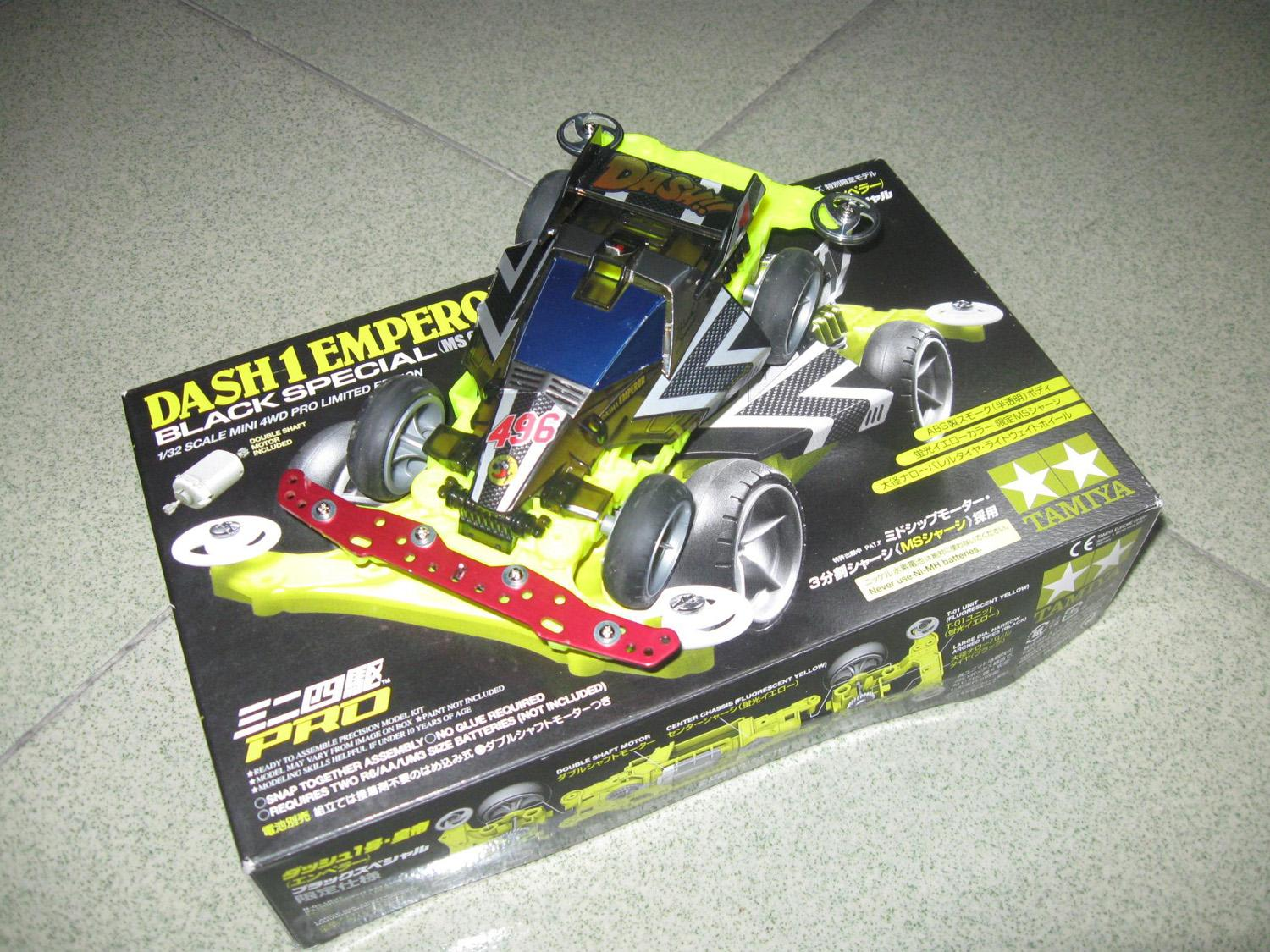 Dash 1 Emperor Black Special Mini4wd,with front light broken.